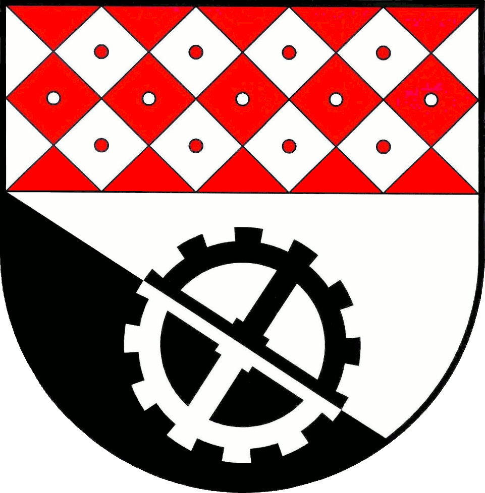 Coat of arms of the municipality Behlendorf in Schleswig-Holstein, Germany.